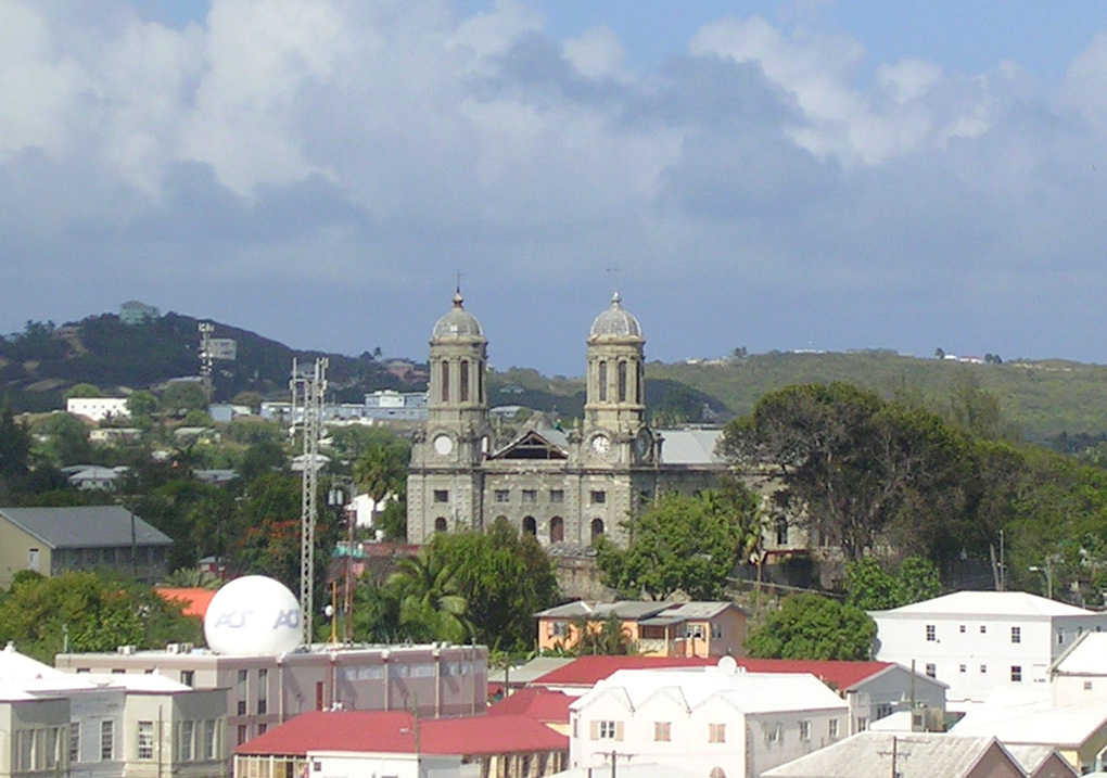 The Cathedral of St. John the Divine (Anglican) was built iln "neo-baroque" style, and completed in 1848.